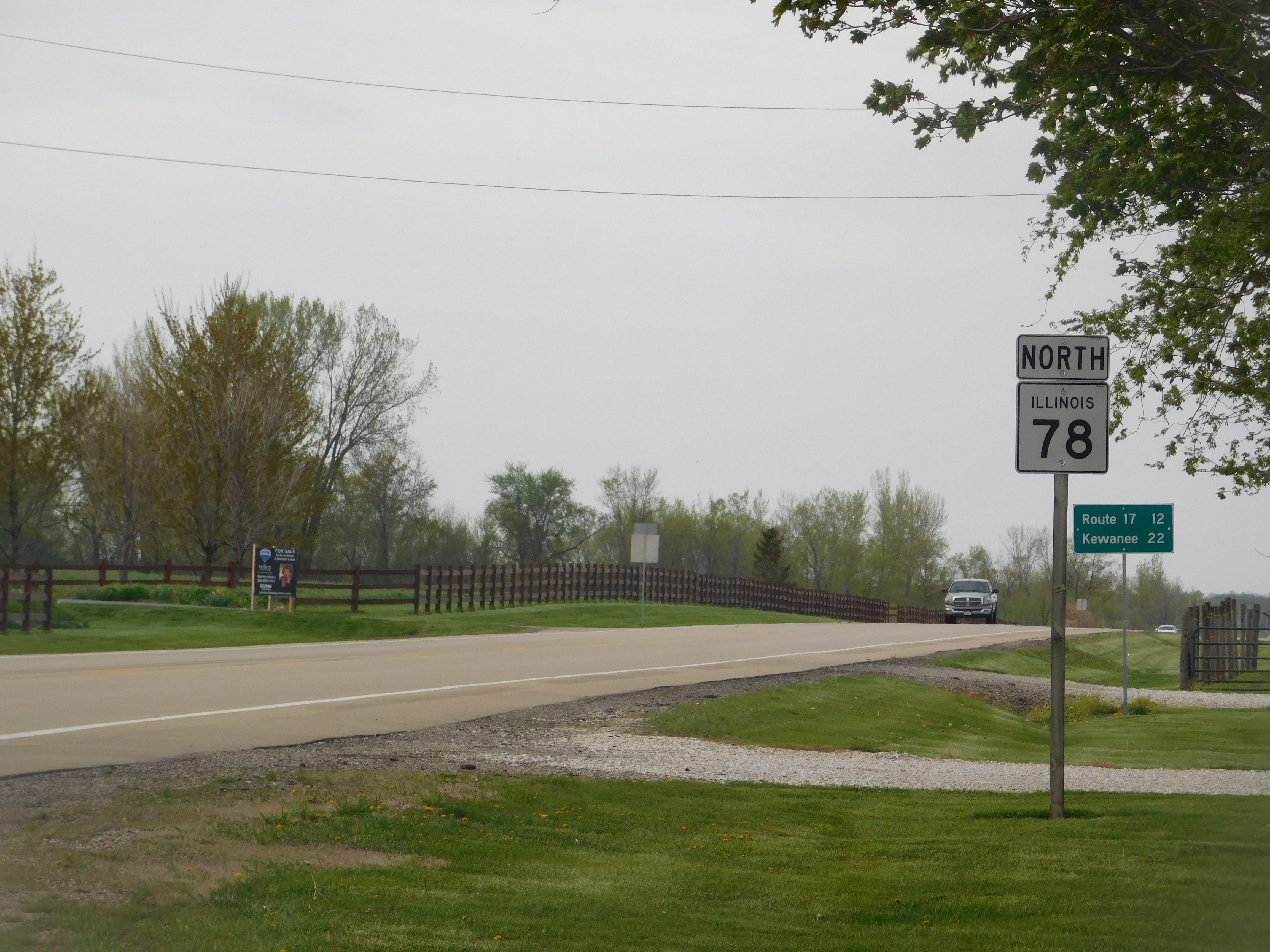 Illinois Route 78 north of Laura, Illinois.